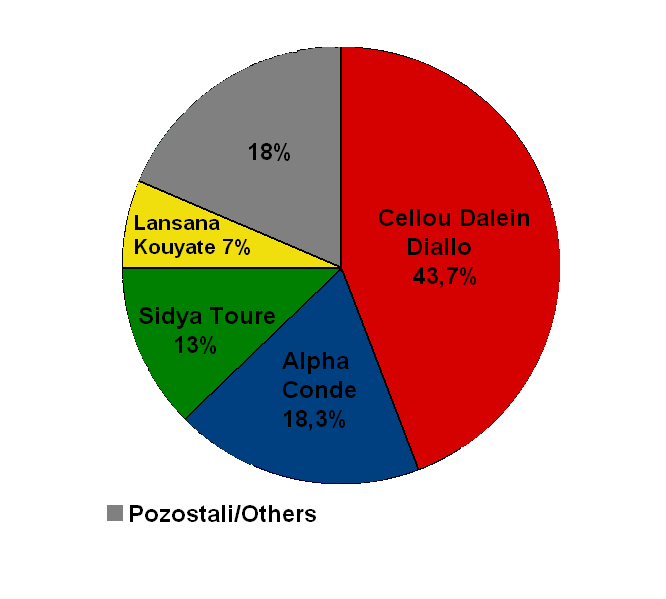 Guinea presidential election's first round results, 2010